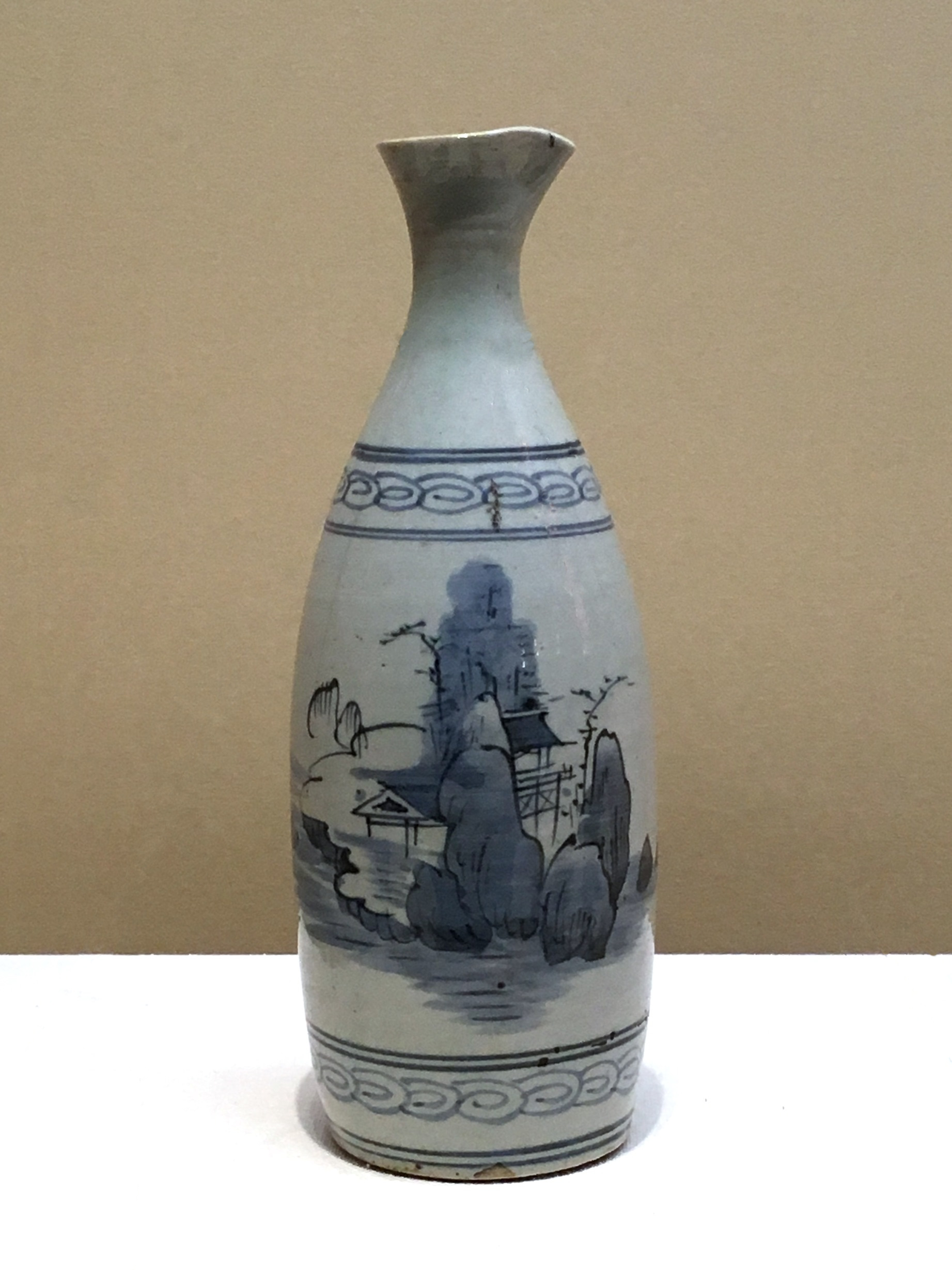 Sake bottle, palace and landscape design, blue underglaze. Kirigome ware. Edo period, 19th century Height: 31 cm Mouth Diameter: 6 cm Diameter: 11 cm Other: 9.2 cm（bottom diameter）